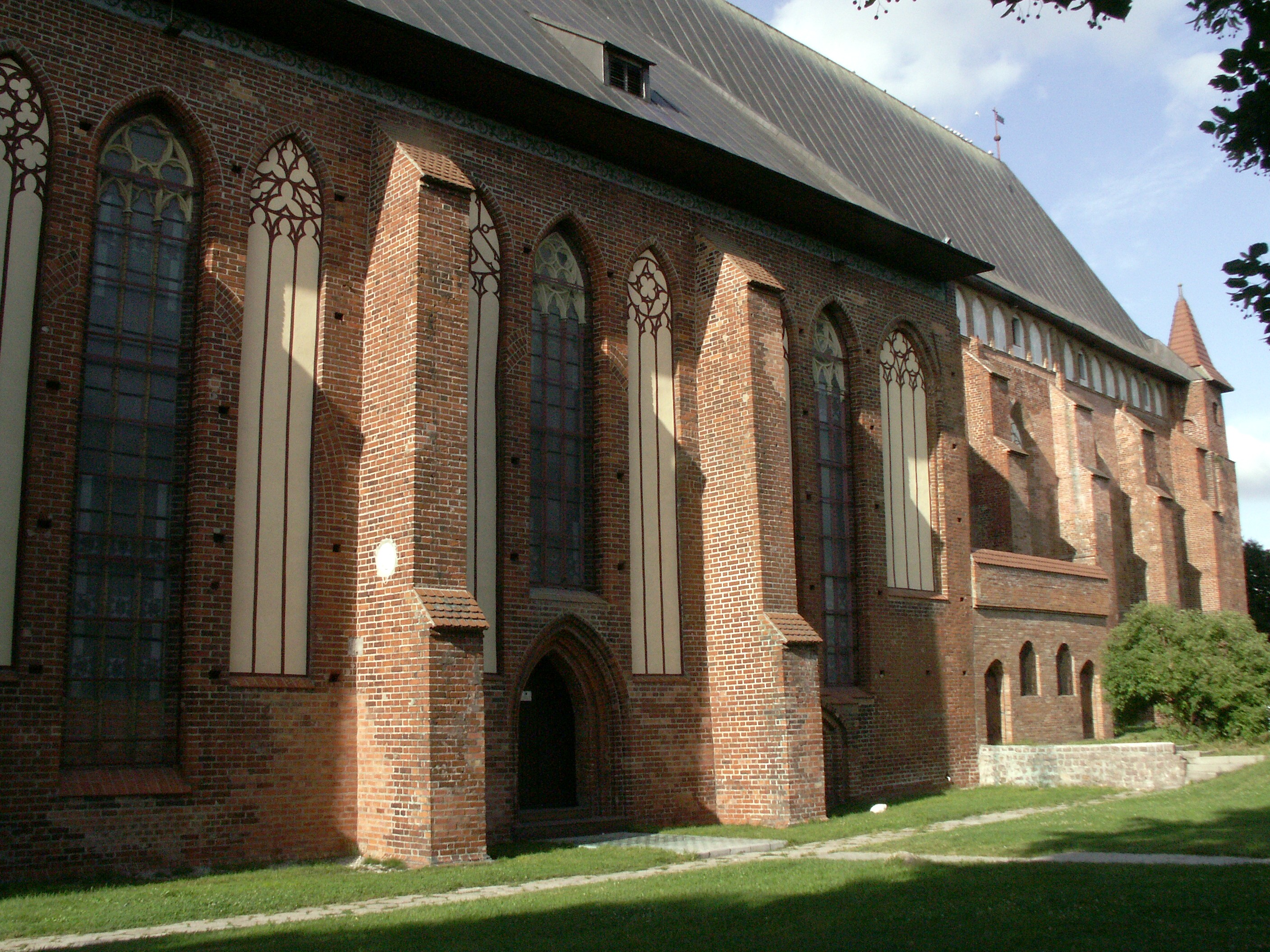 Königsberg cathedral in Kaliningrad